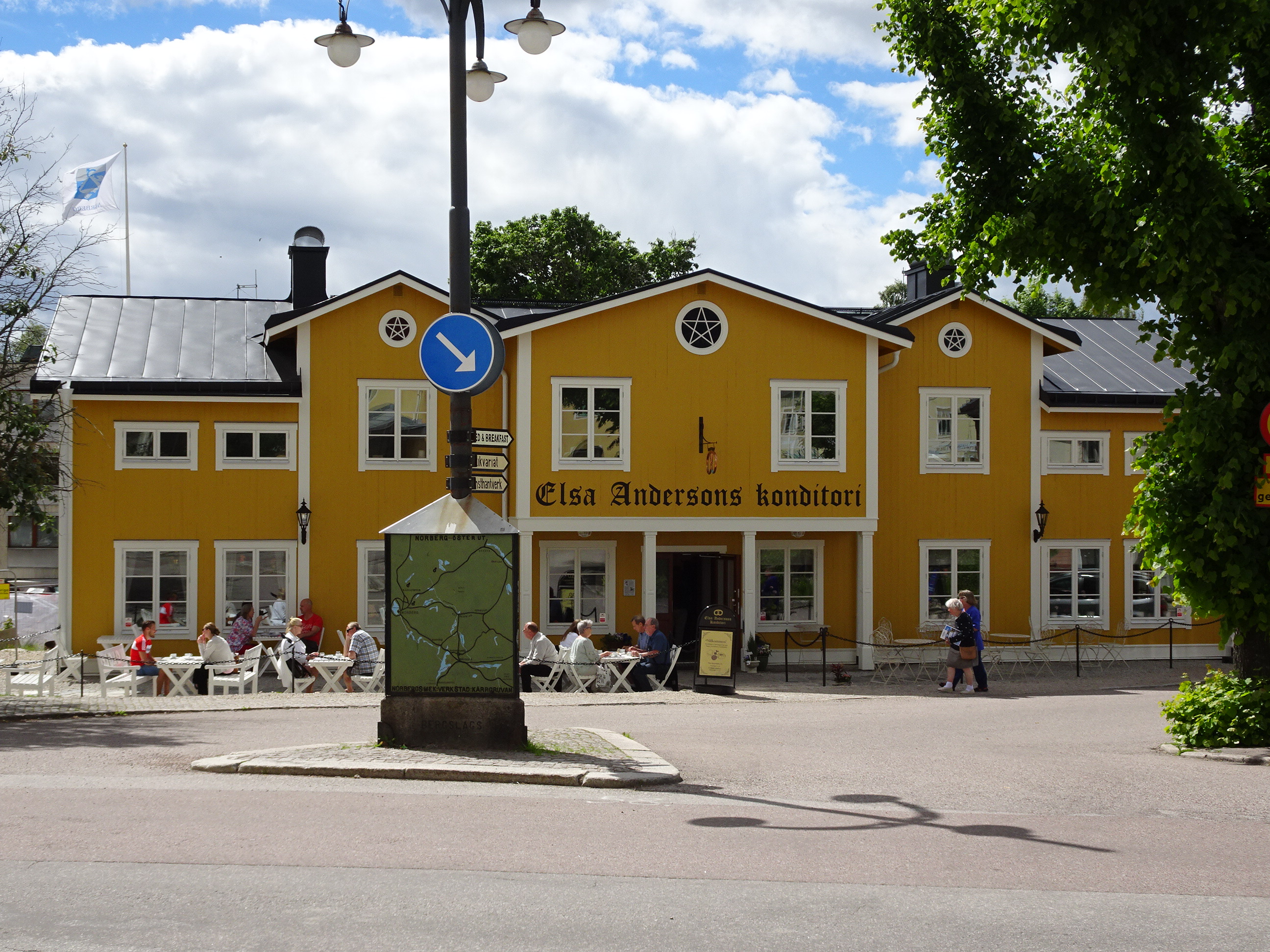 Elsa Andersons konditori (patisserie) in Norberg, Sweden. It is rebuilt after the being totally destroyed in a fire 2015.